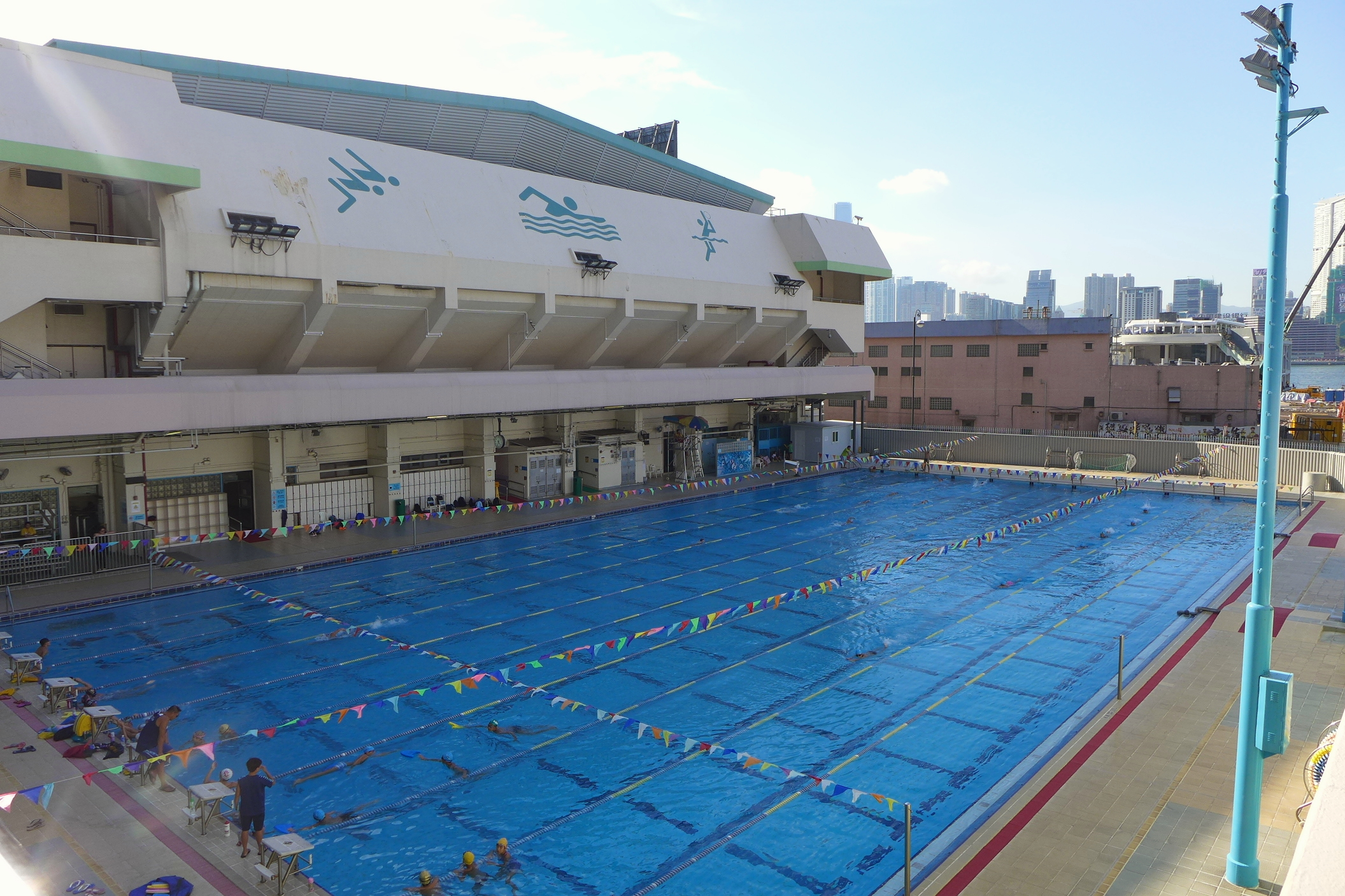 Wan Chai Swimming Pool